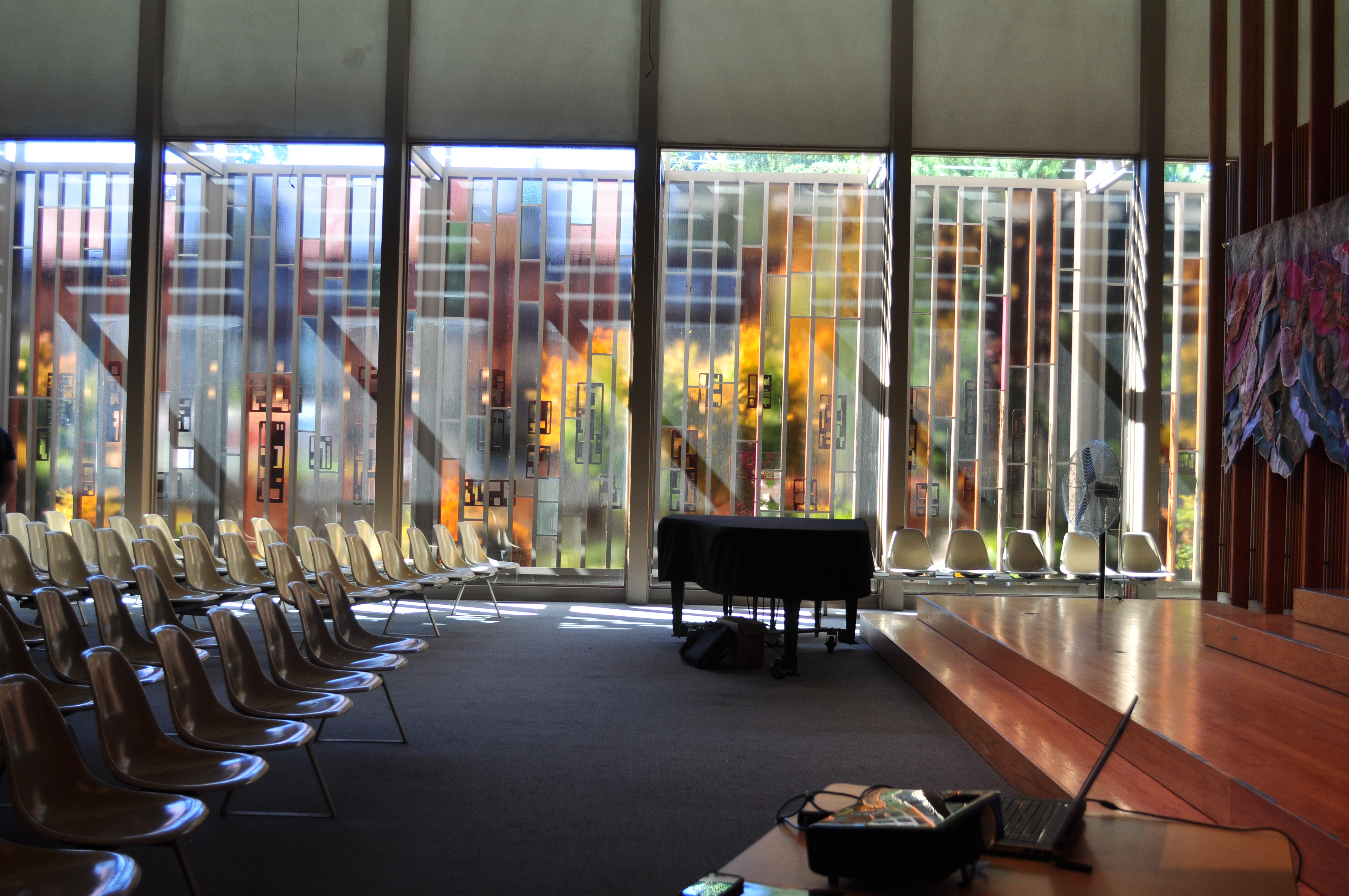 Sanctuary, University Unitarian Church, Bryant neighborhood, Seattle, Washington, U.S.